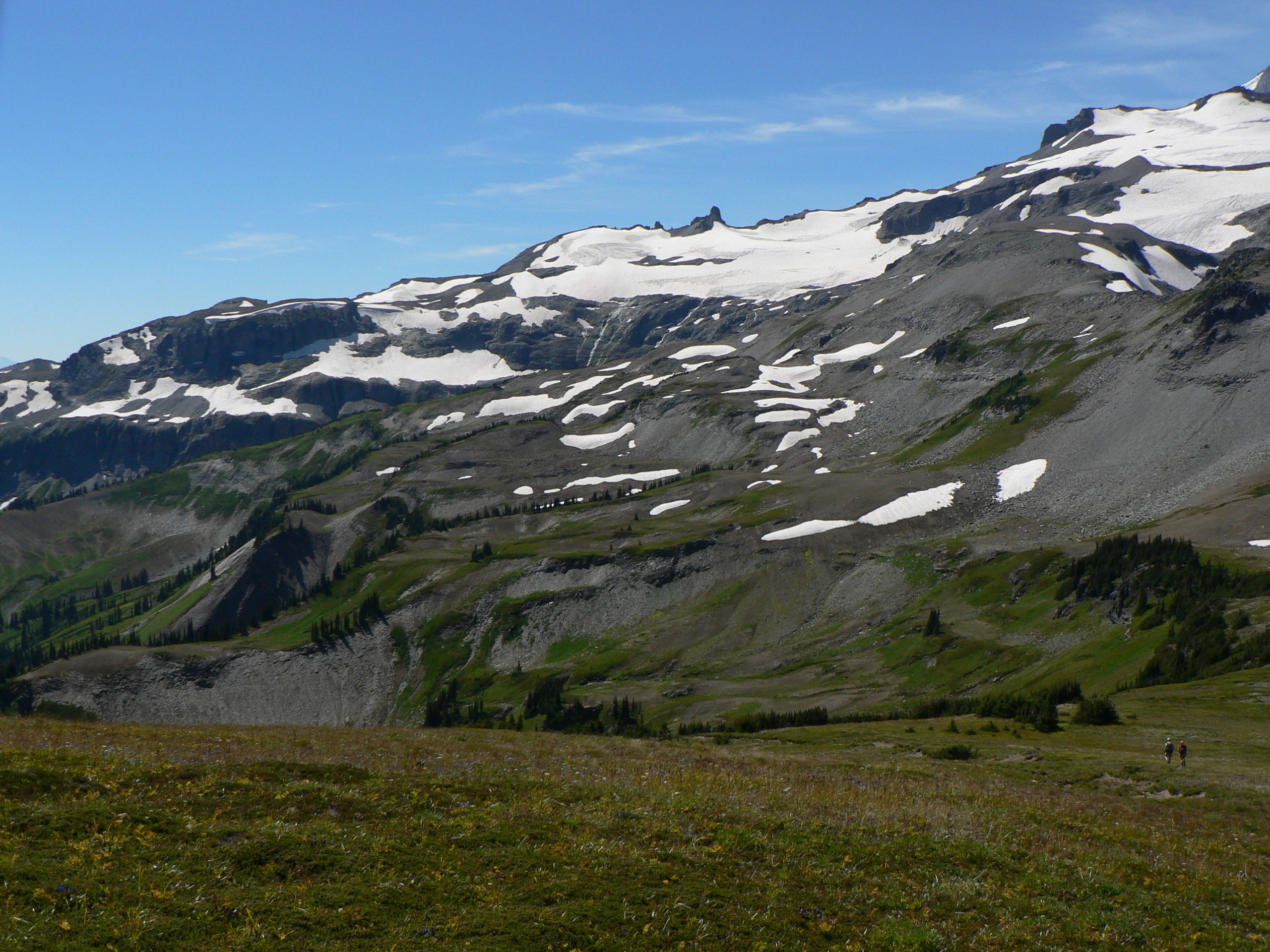 Ohanapecosh Glacier (center)